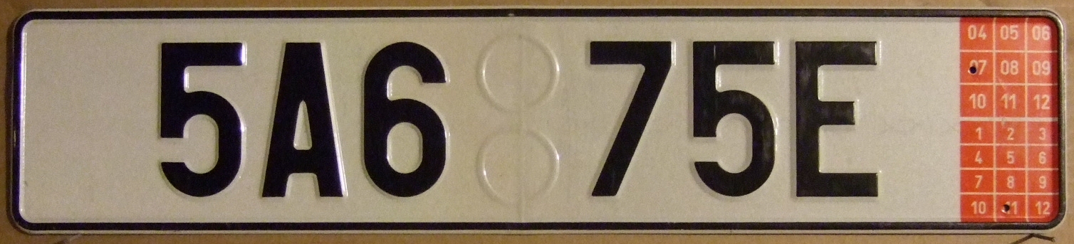 Export license plate from the Czech Republi, A = Prague, E = Export, valid till July 2011